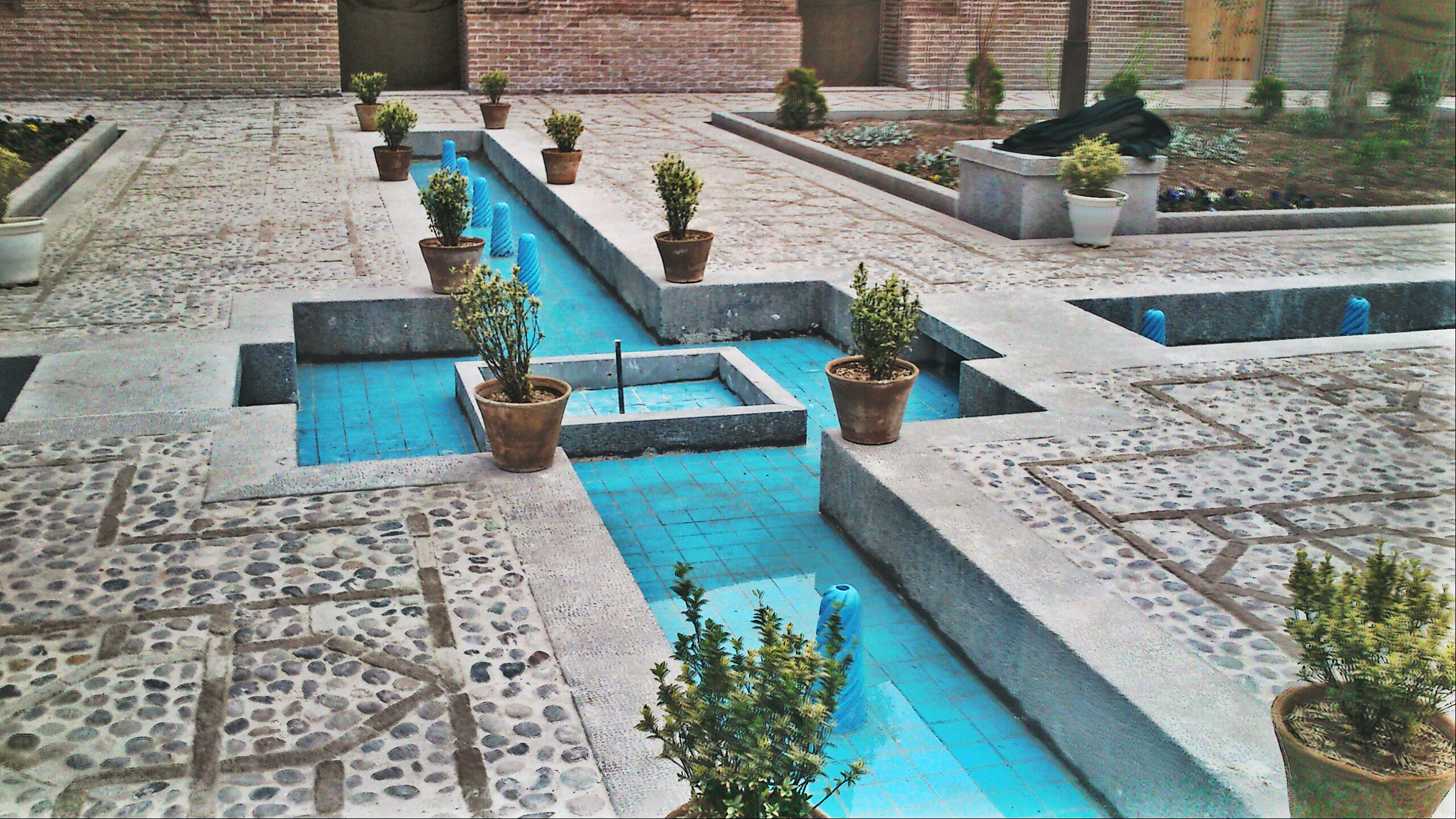 carvansarai of sadosaltaneh (sadosaltaneh lnn) _ qazvin city _ iran